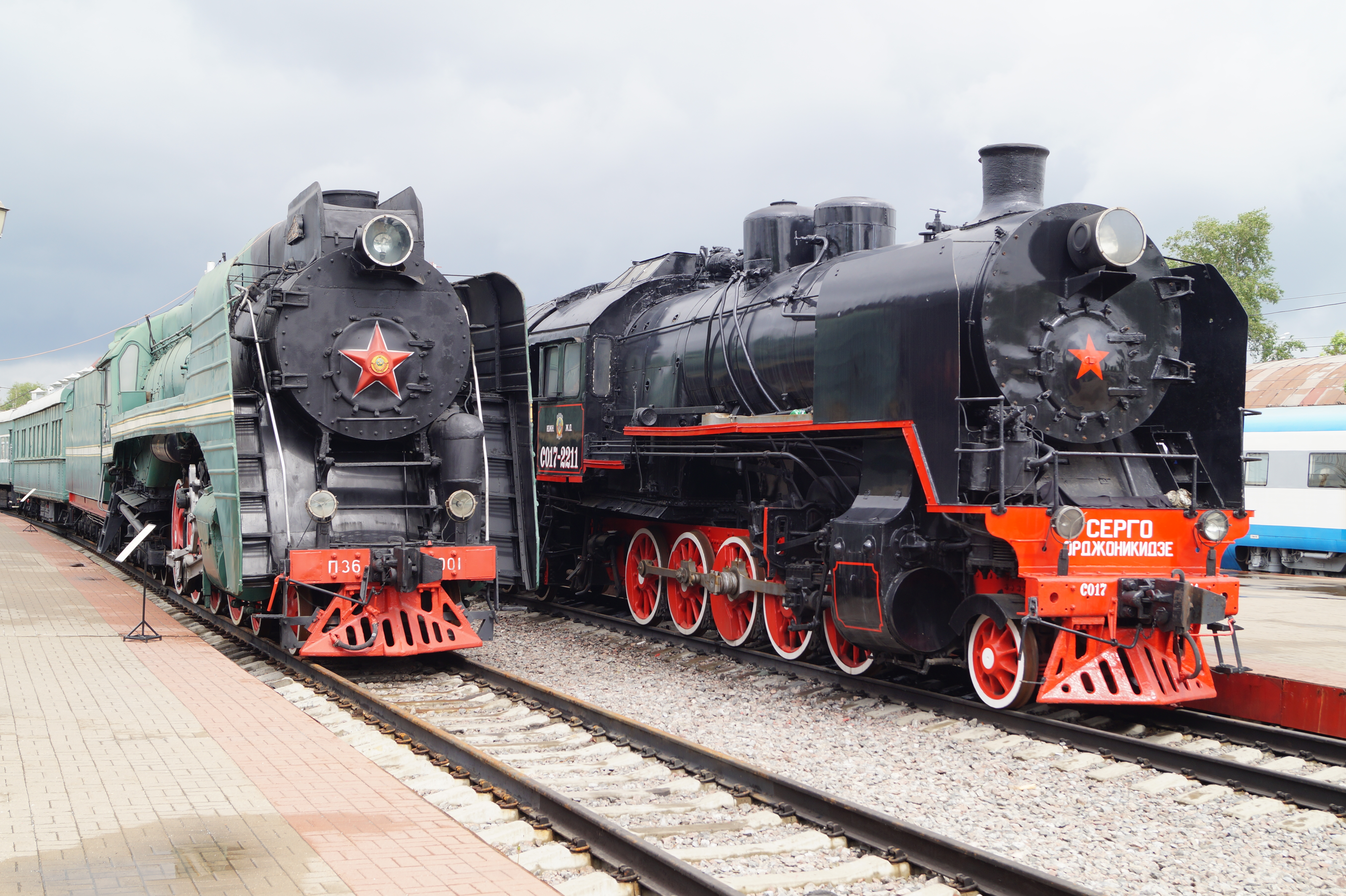 Museum of the Moscow Railway at Rizhskaya station in Moscow